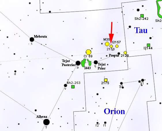 Map of NGC 2158